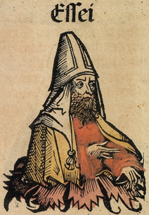 This is a part of a scan of an historical document: Title: Schedelsche Weltchronik or Nuremberg Chronicle